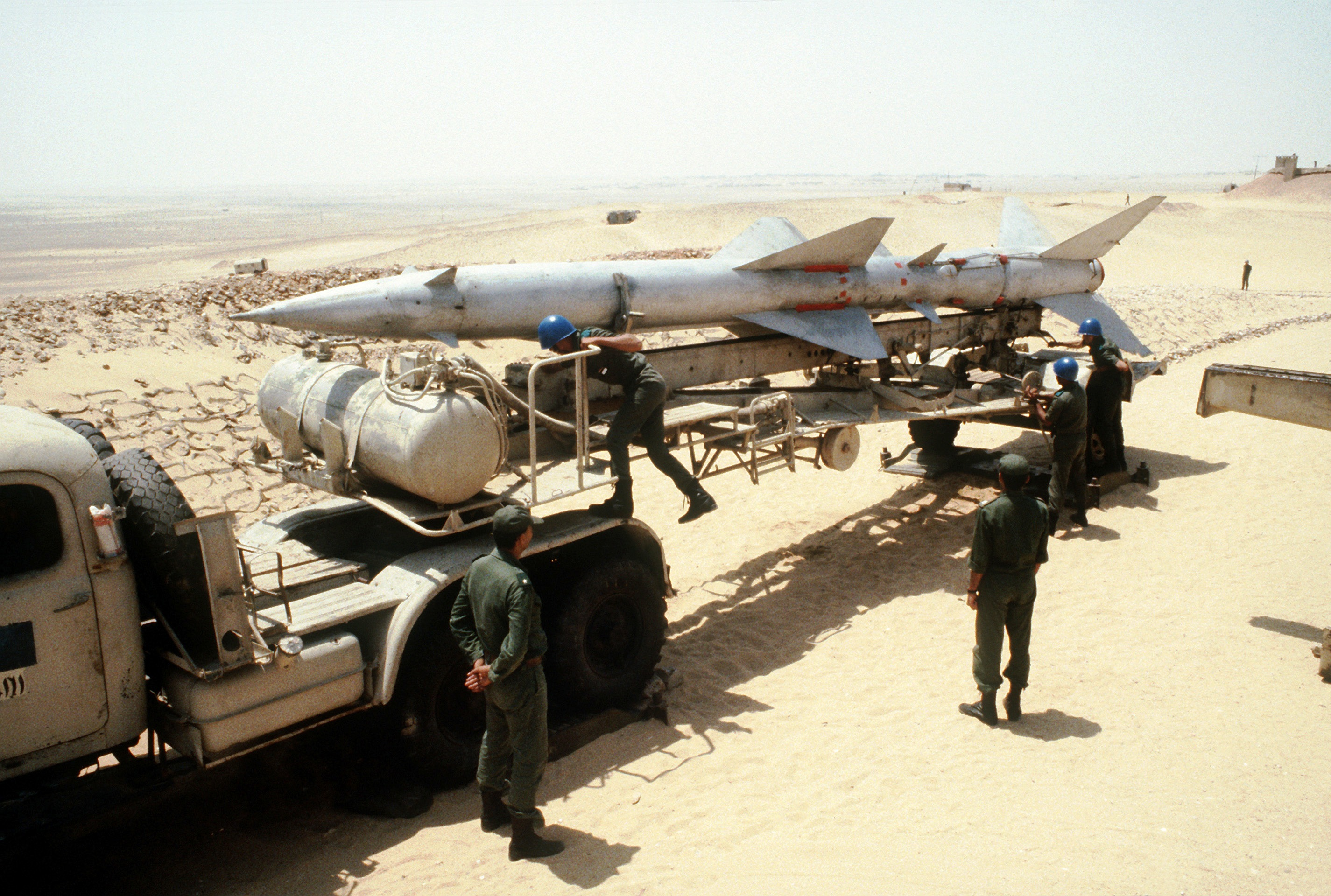 Egyptian soldiers prepare an SA-2 surface-to-air missile for deployment during the multinational joint service Exercise Bright Star '85.